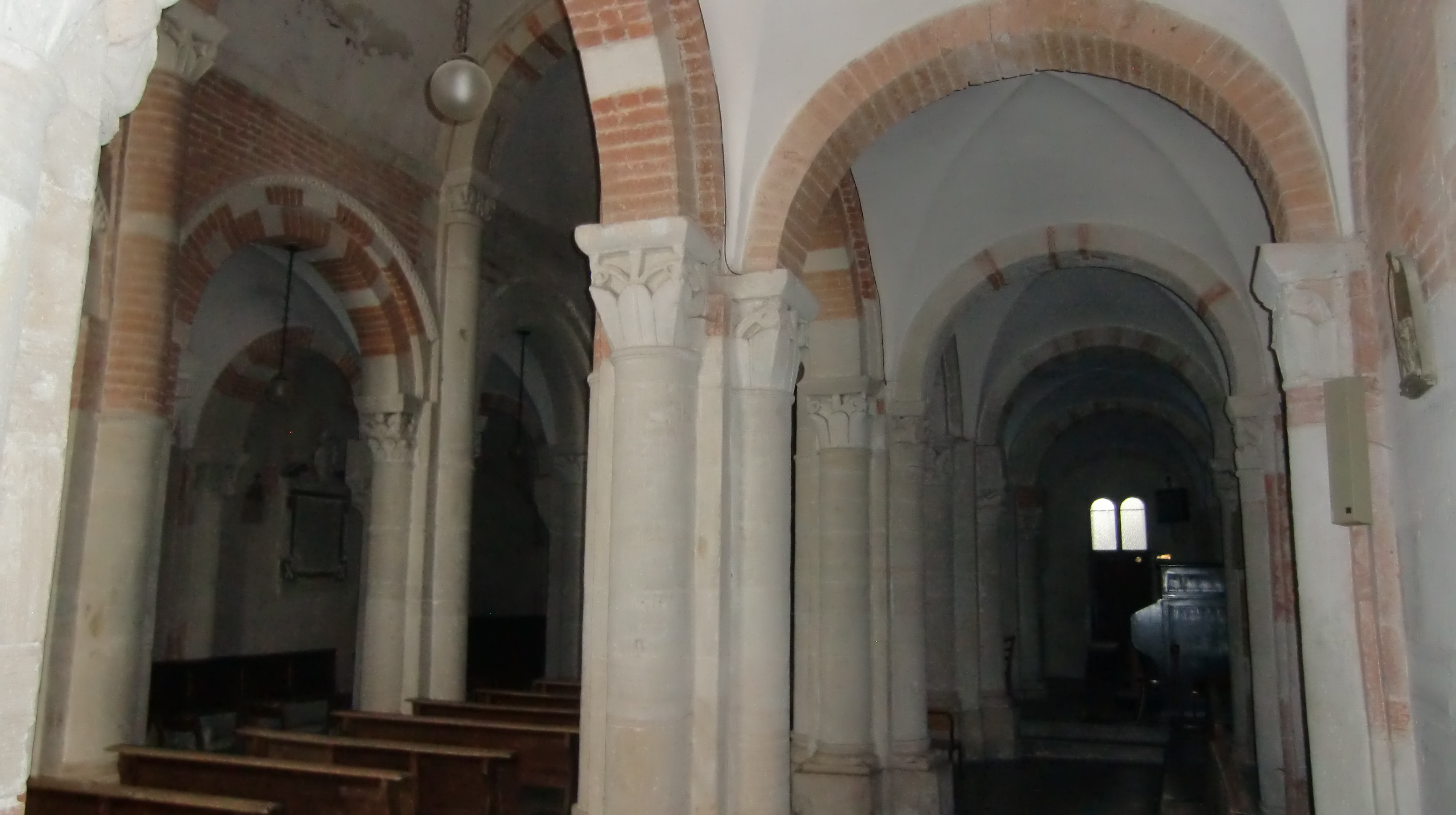 Abbey of Santa Fede in Cavagnolo (TO), Piedmont, Italy, XII century, view of the interior of the church